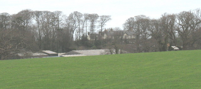 Plas Dinas - the ancestral home of The Lord Snowdon. This was originally the home of Tony Armstrong Jones' paternal grandmother, Margaret Roberts, the daughter of Sir Owen Roberts. Margaret married Robert Jones, a chapel minister's son from Ynyscynhaearn, who became a distinguished psychiatrist and the head of a large London mental hospital. Their son, Ronald Armstrong Jones, lived for a period at Plas Dinas when Lord Snowdon was a lad. The family tomb is at St Gwyndaf's church. 722097